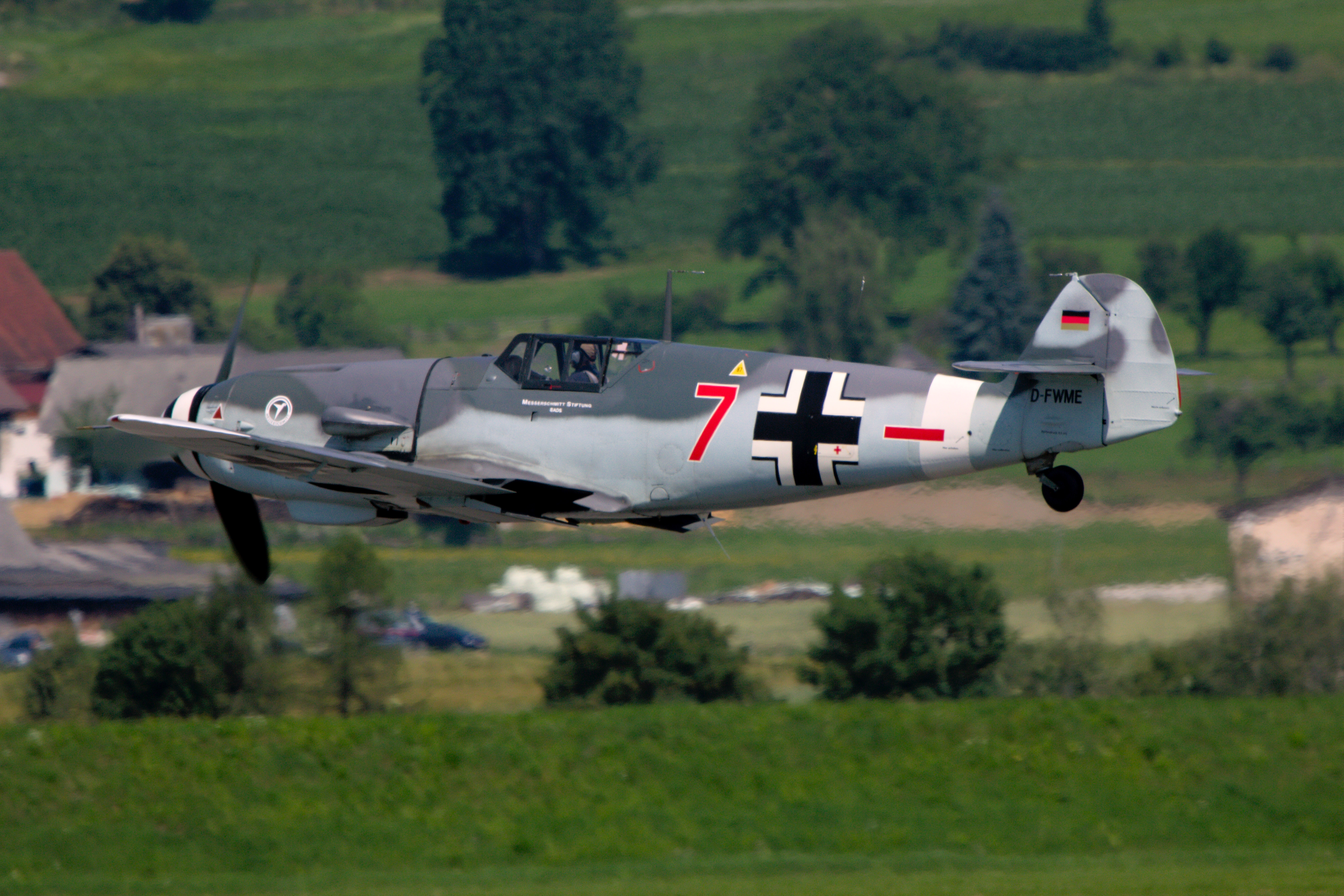 HA-1112-M1L (rebuilt as Bf 109G) at Airpower11